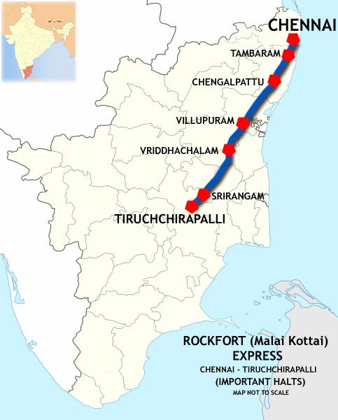 Rock Fort Express Route map